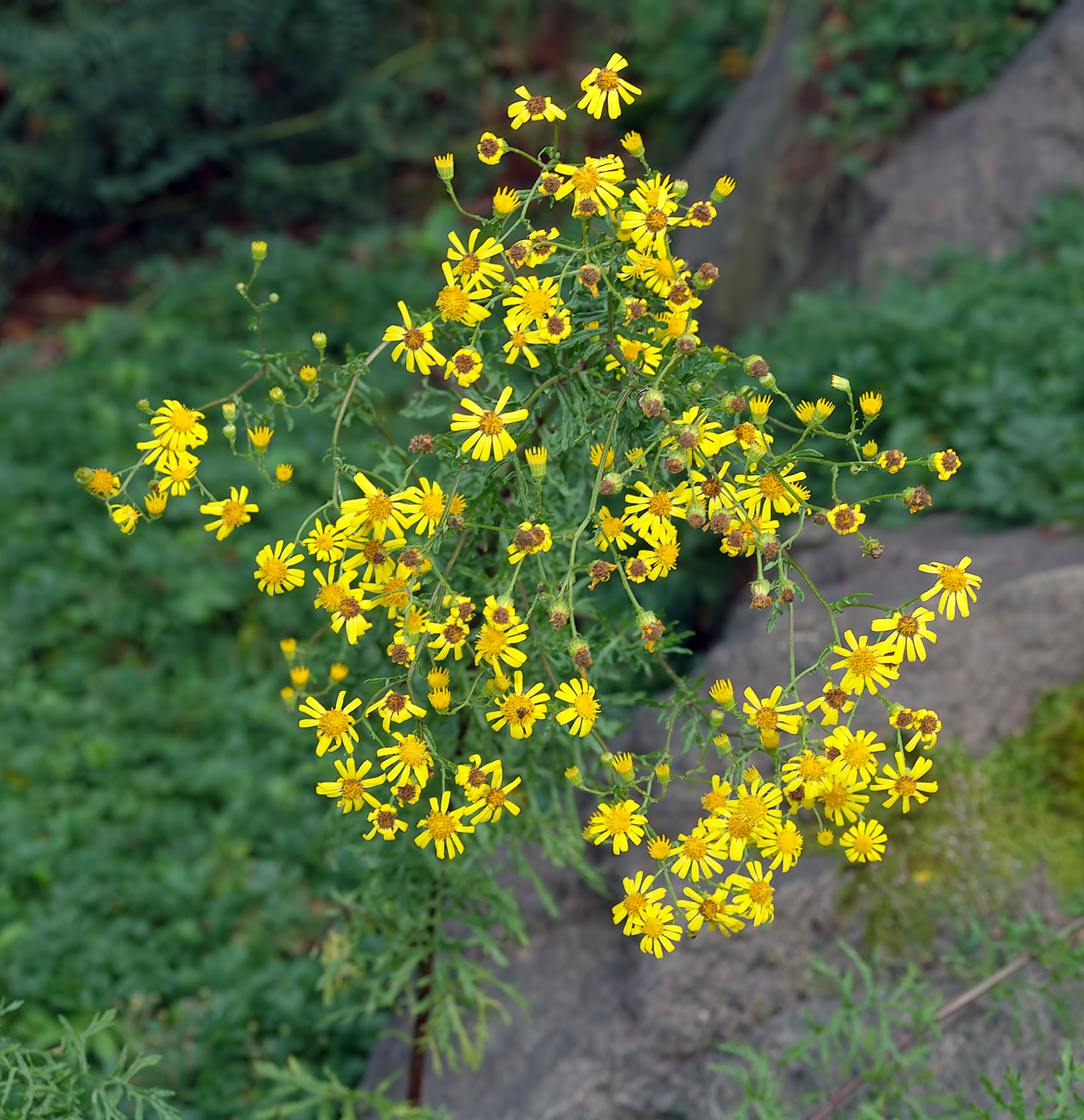 This image shows a Hoary groundsel (Senecio erucifolius, other name Jacobaea erucifolia).